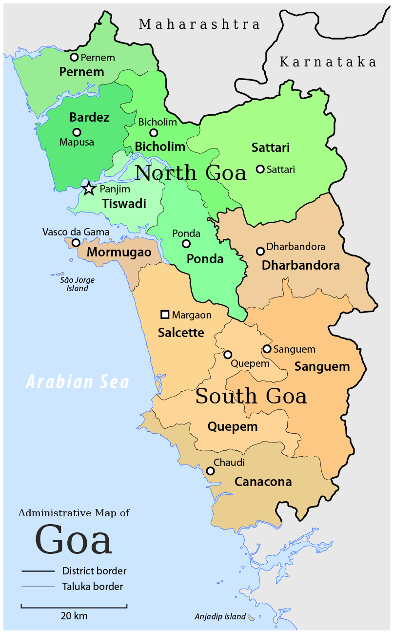 Administrative map of Goa with the actual 12 talukas